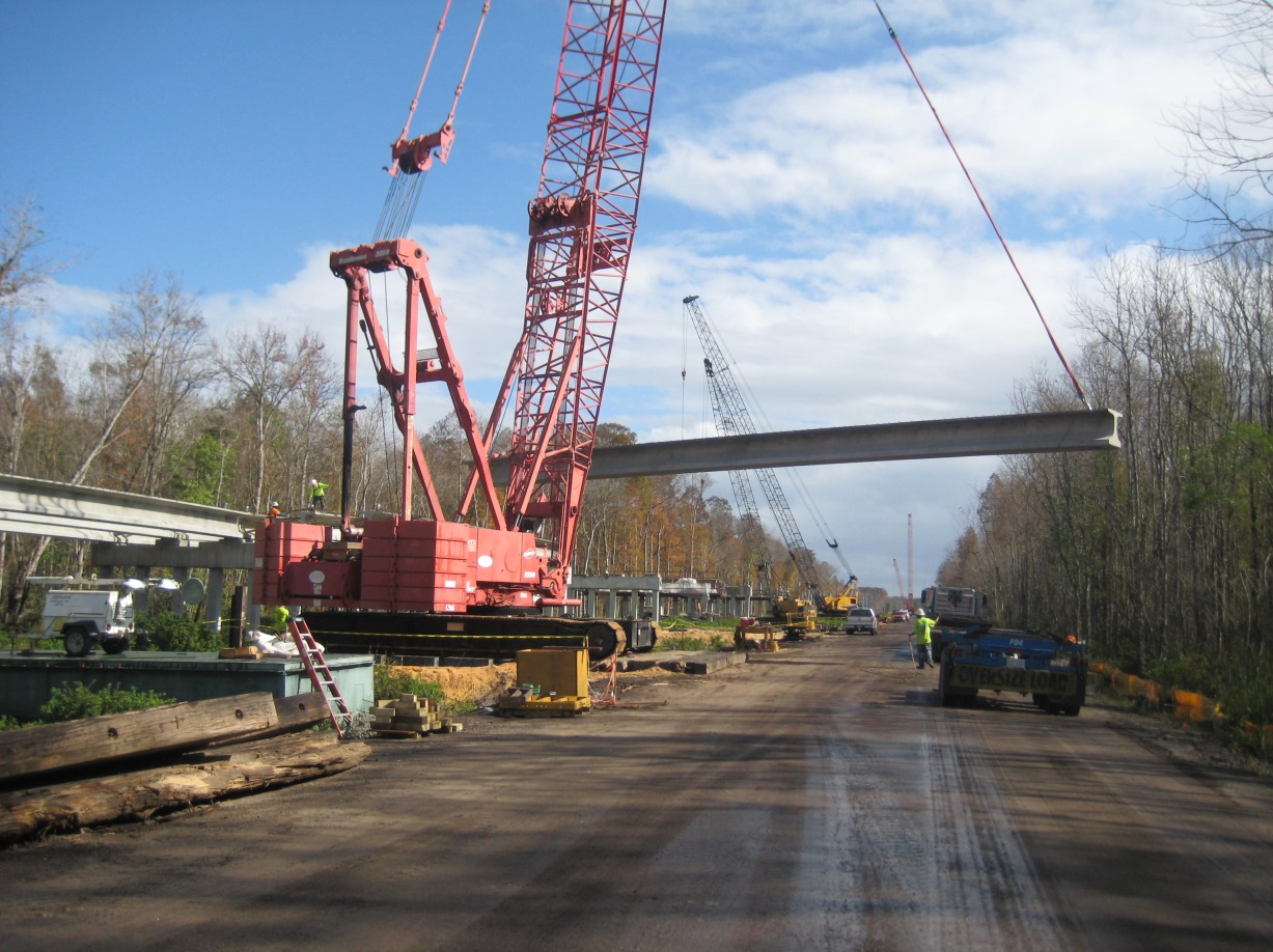 Bridge being built for the Poinciana Parkway over the Reedy Creek Mitigation Bank, near Poinciana, Florida